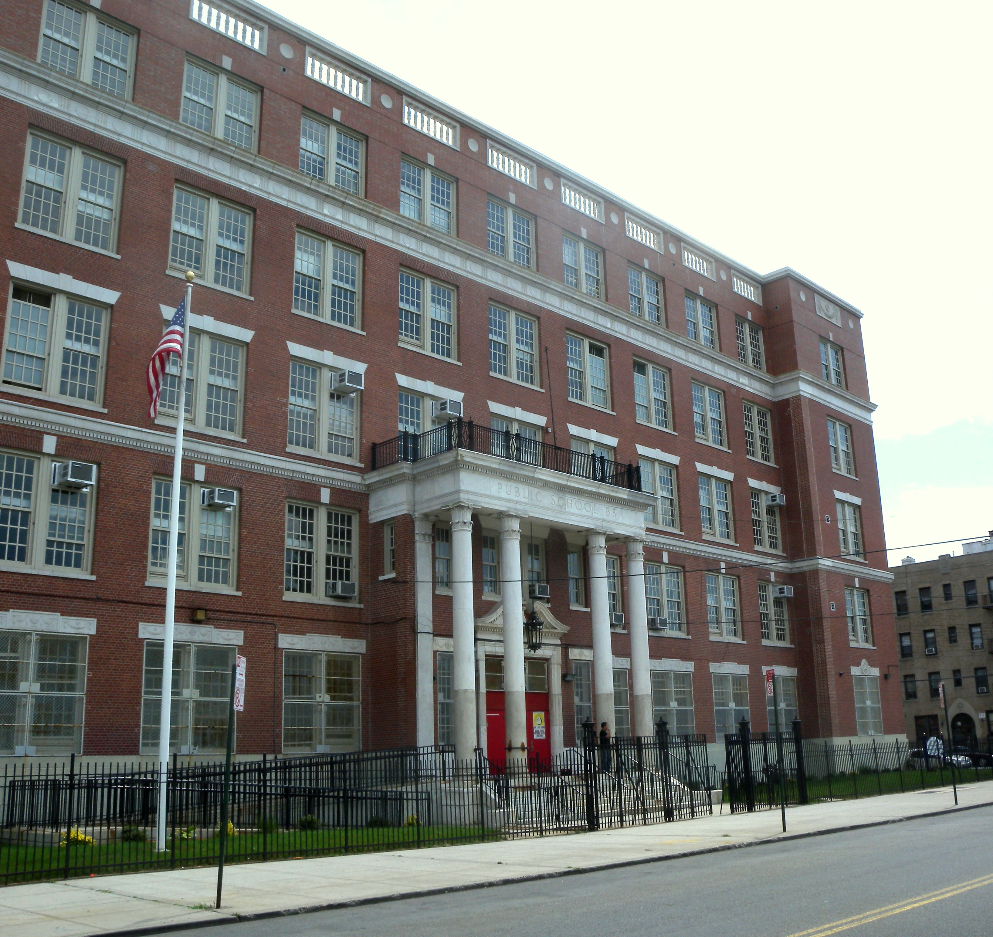 Looking south across Rhinelander Avenue at PS 83 the Hertz School on a mostly sunny midday.